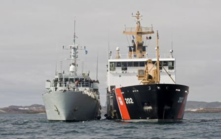 HMCS Summerside and USCGC Willow during Operation Nanook 2011.jpg